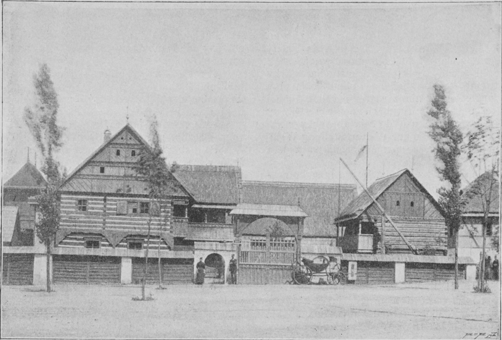 A rural farmhouse from around the Jizera river (cs: Pojizerská chalupa) displayed on Czech & Slavonic Ethnographic Exhibition in Prague in 1895.